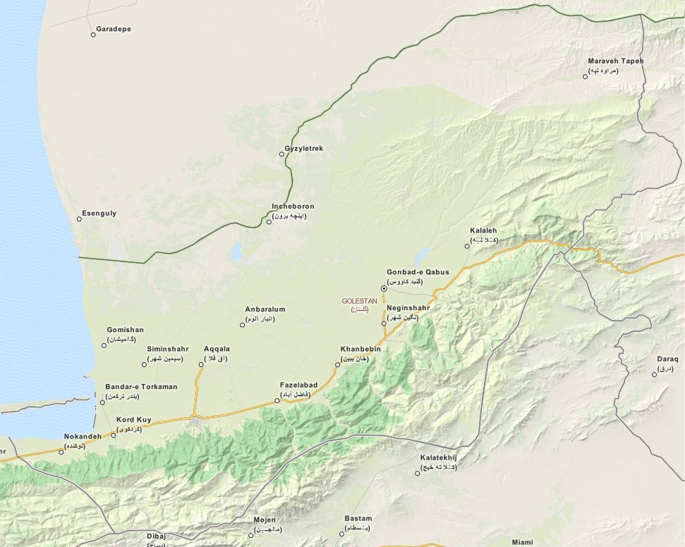 This map may be incomplete, and may contain errors. Don't rely solely on it for navigation.